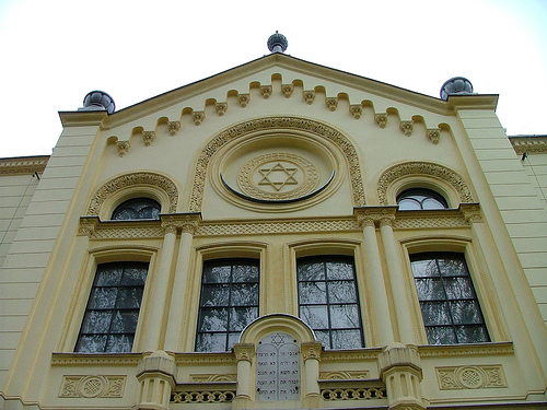 Nożyk Synagogue in Warsaw